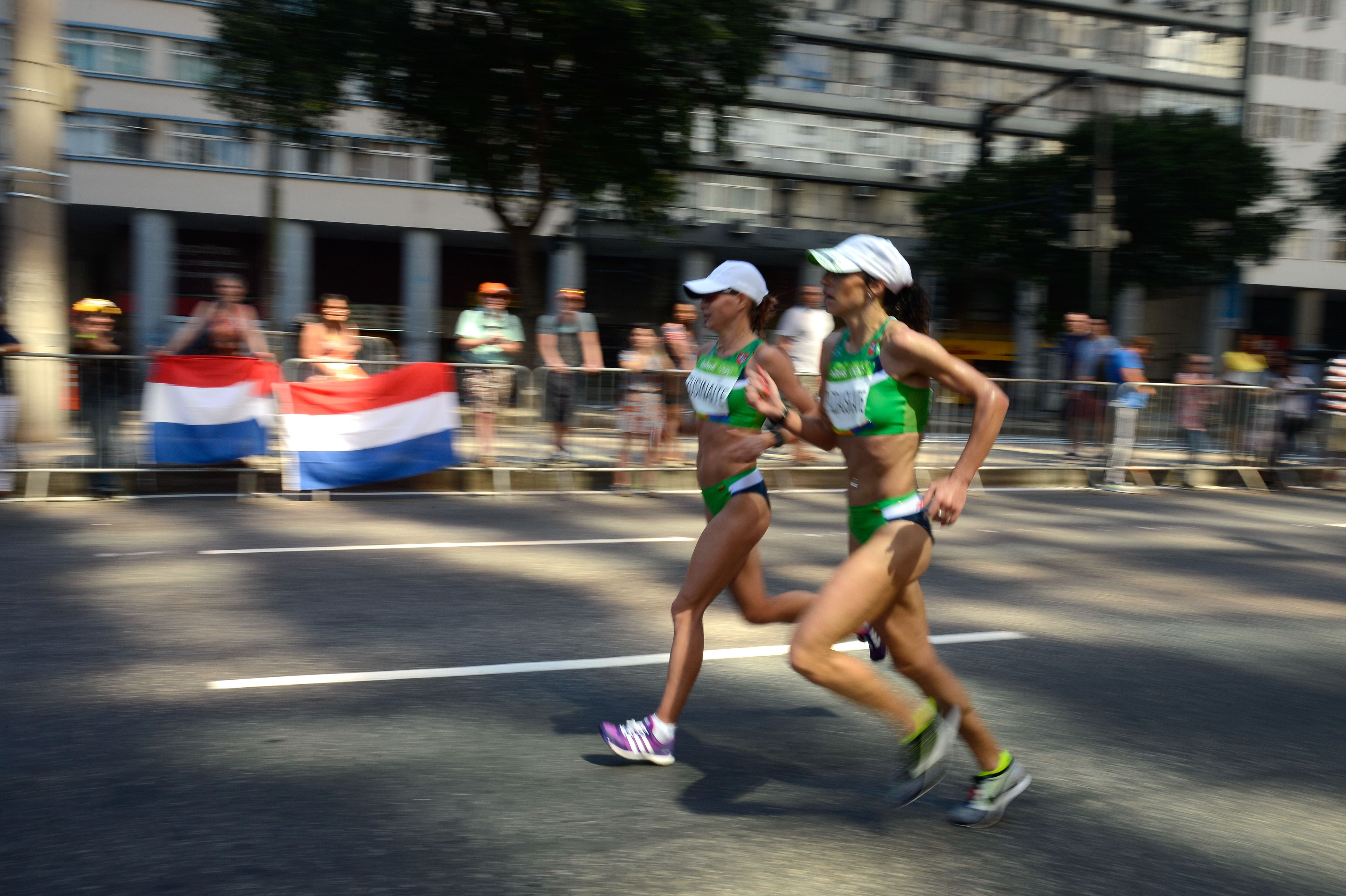 Female marathon Rio Olympics 2016